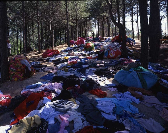 Sewing Into Walking–Dedicated to the Victims of Kwangju, 1995, Installation at The first Kwangju Biennale, Korea- Used bed clothes and used clothes, speakers playing “Imagine” by John Lennon, dimensions variable. Photo by Fukuoka Sakae.